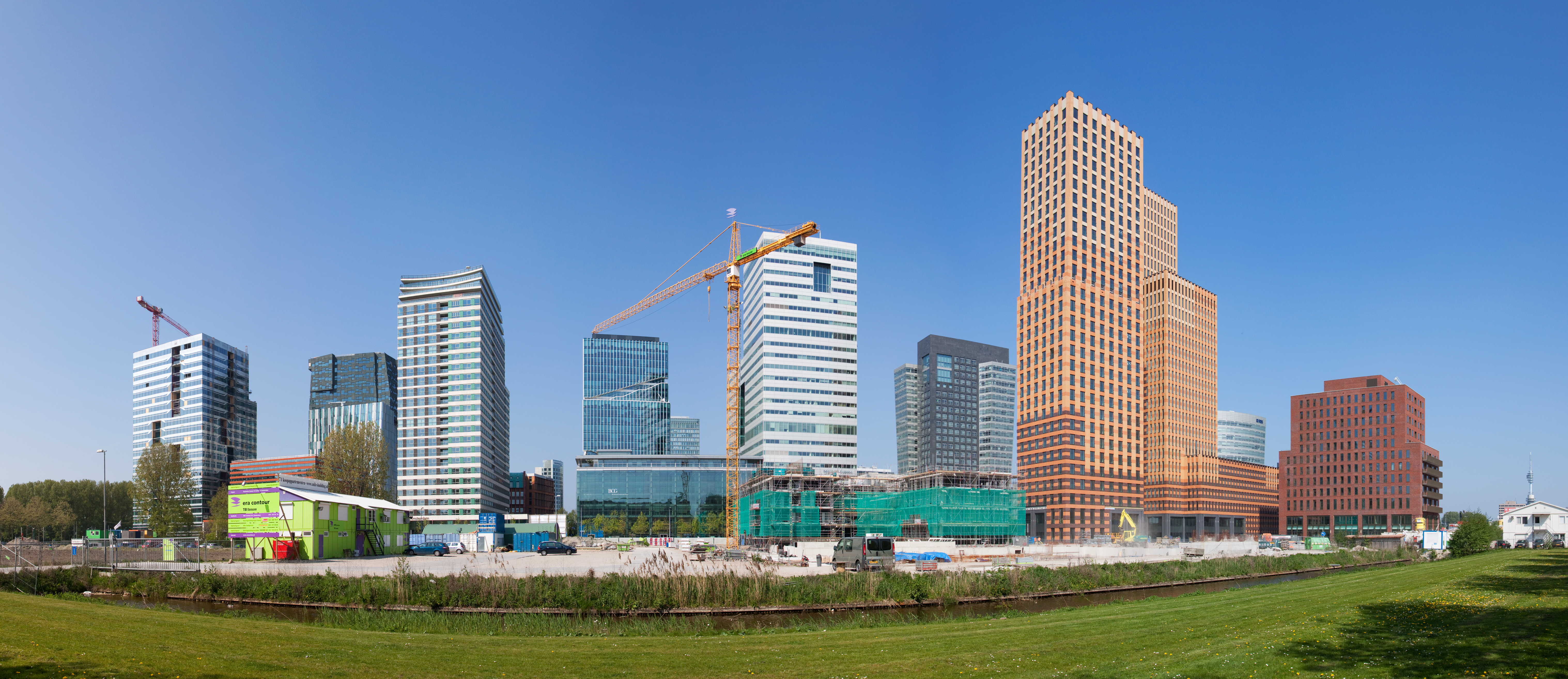 A panorama of the Zuidas business district in Amsterdam, the Netherlands.